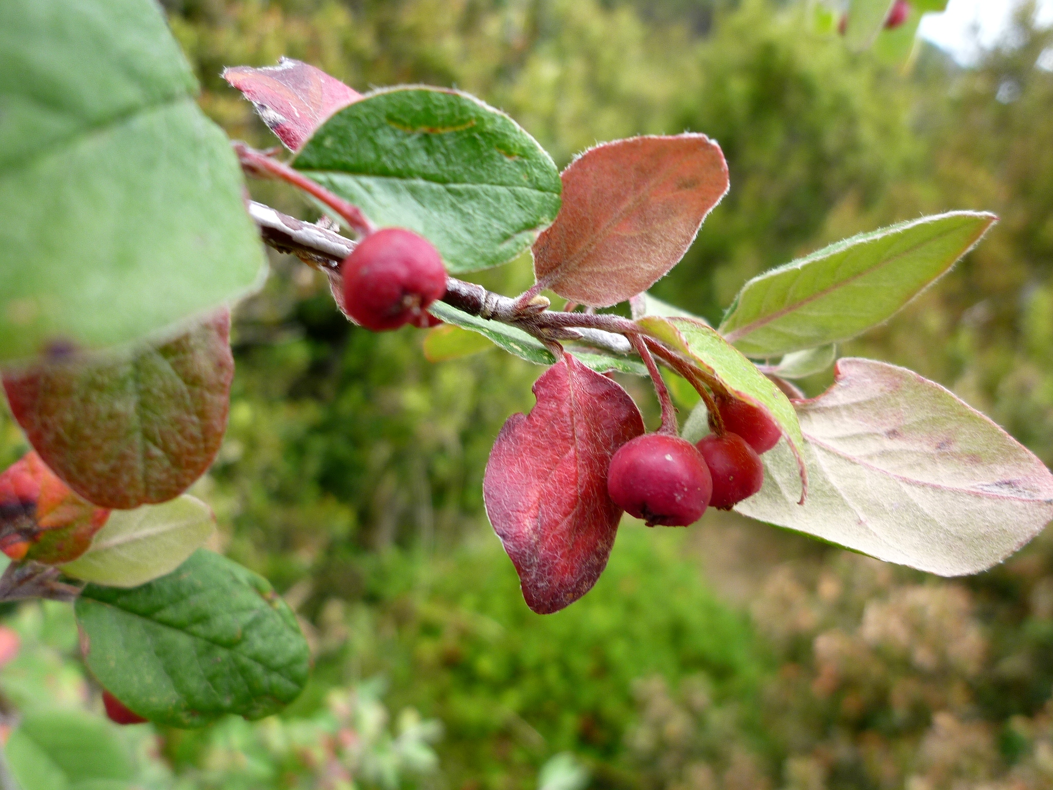 Cotoneaster integerrimus. In la Bòfia, Guixers (Solsonès - Catalunya). To 1.750 m. altitude.